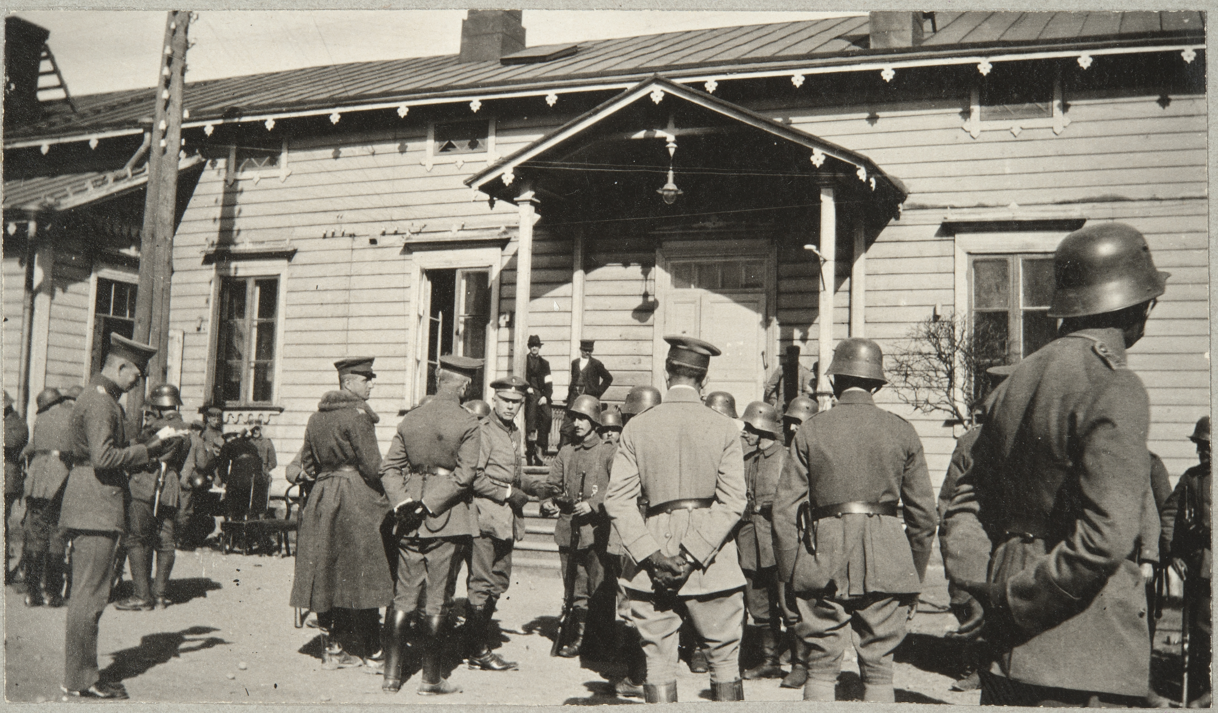 1918 Finnish Civil War: The German general Rüdiger von der Goltz awards his men with the Iron Cross after the Battle of Riihimäki.